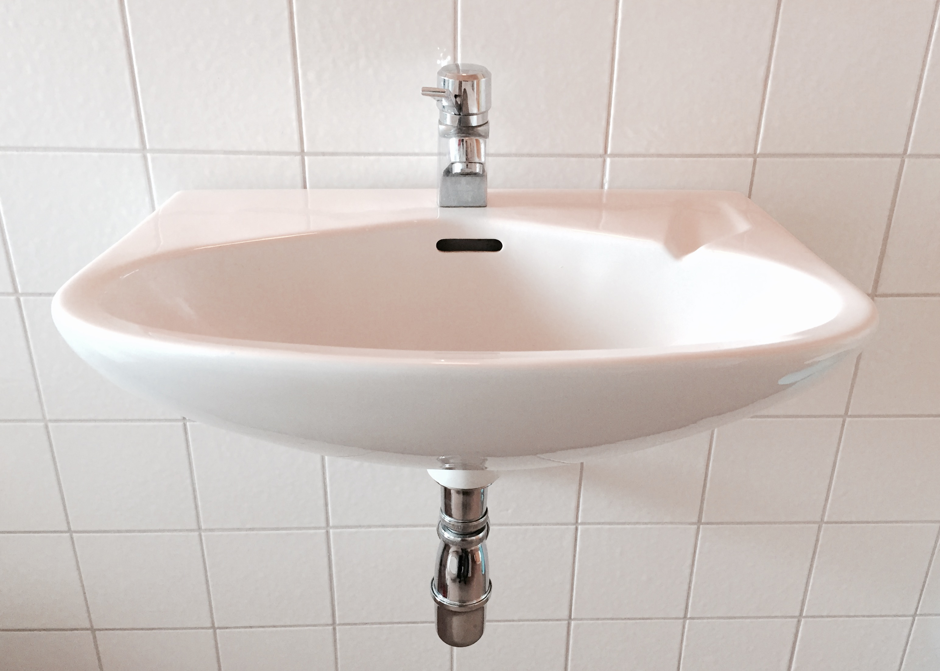 Sink modell 525. Design by Carl-Arne Breger and produced by Gustavsbergs fabriker (AB Gustavsberg), Gustavsberg, Sweden